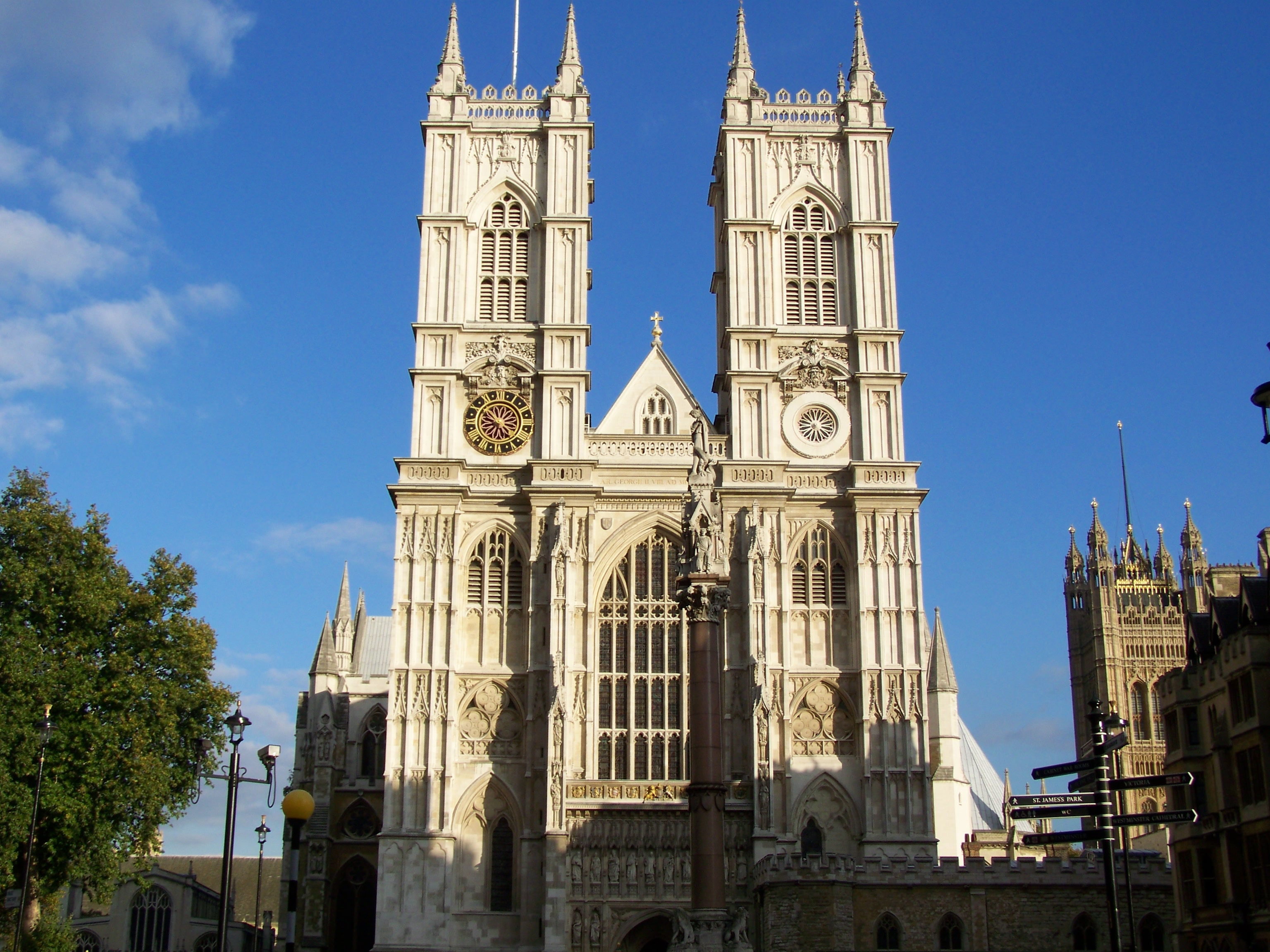 The Westminster Abbey, London